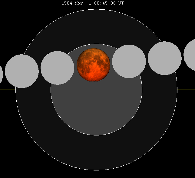 March 1504 lunar eclipse chart of moon's path through the earth's shadow. thumb